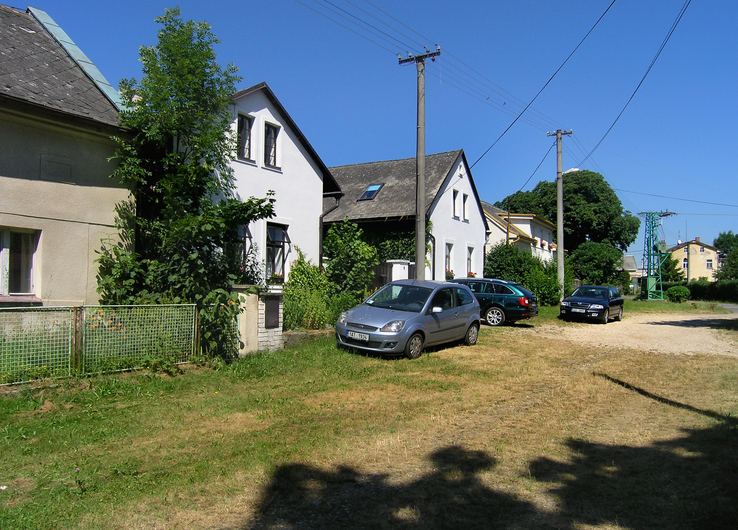 Common in Ptýrov village, Czech Republic